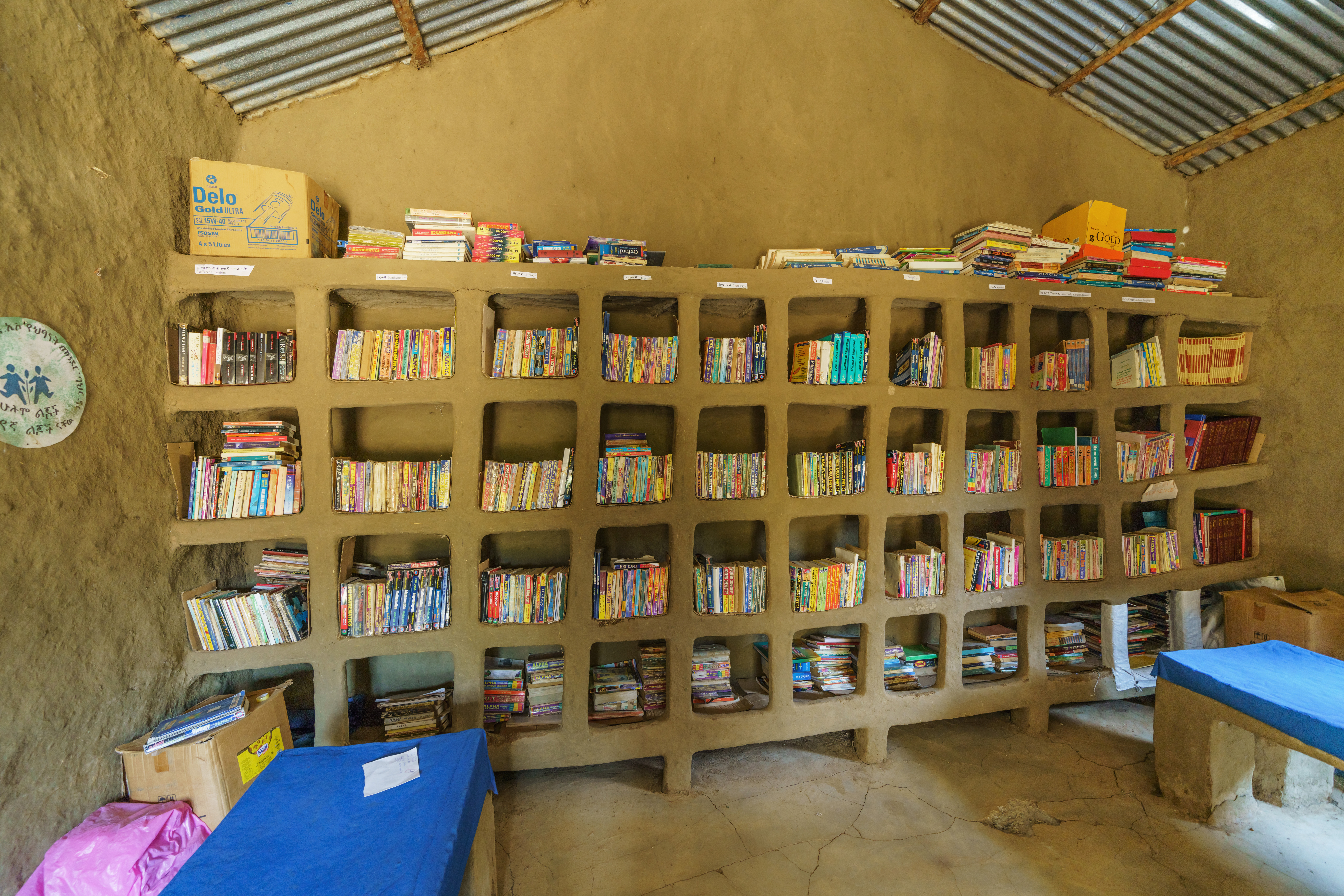 Awra Amba community in Amhara Region, Ethiopia: school library